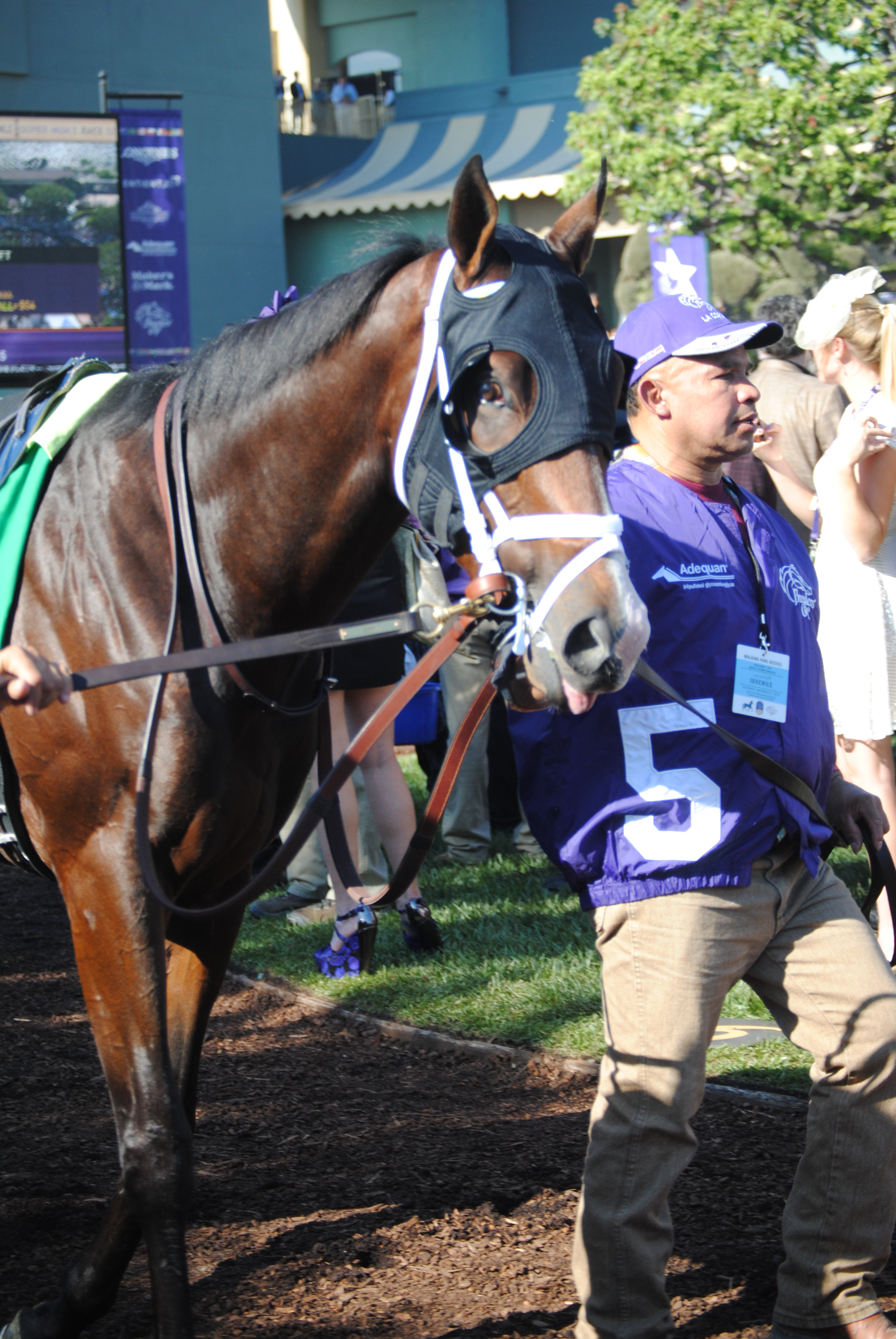 Classic Empire prior to the 2016 Breeders' Cup Juvenile